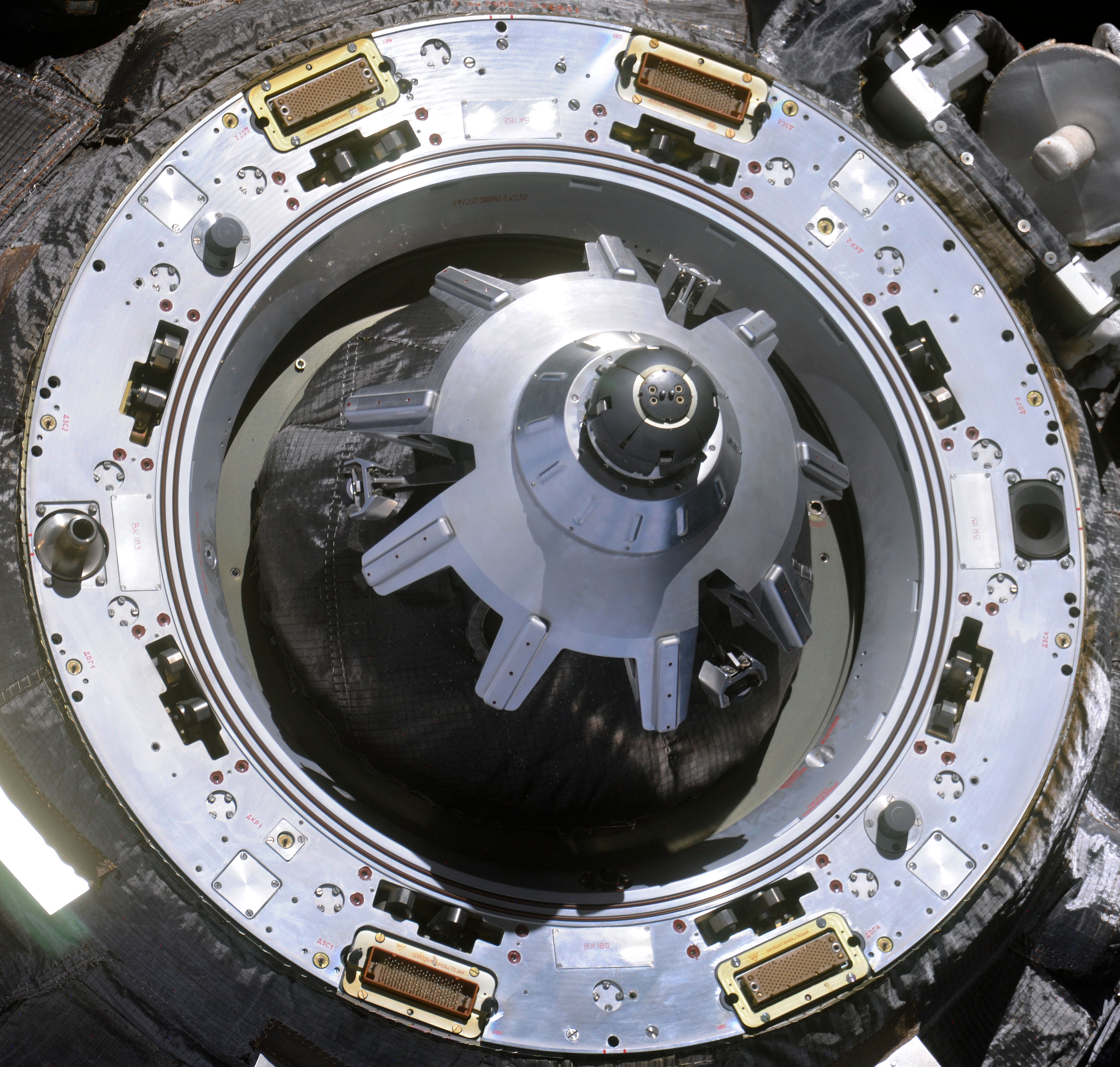 ISS028-E-005002 (23 May 2011) --- A close-up view of the Soyuz TMA-20 spacecraft as it departs from the International Space Station on May 23, 2011. Onboard are three members of Expedition 27 -- Russian cosmonaut Dmitry Kondratyev, Expedition 27 and Soyuz commander; NASA astronaut Cady Coleman and European Space Agency astronaut Paolo Nespoli, both flight engineers. Kondratyev was at the controls of the spacecraft as it undocked at 5:35 p.m. (EDT) from the station's Rassvet module. The crew landed safely at 10:27 p.m. southeast of the town of Dzhezkazgan, Kazakhstan.